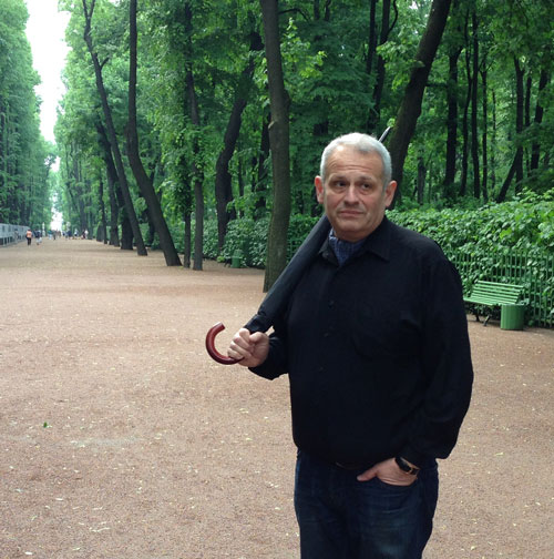 Boris Kipnis at walk in Summer Garden.